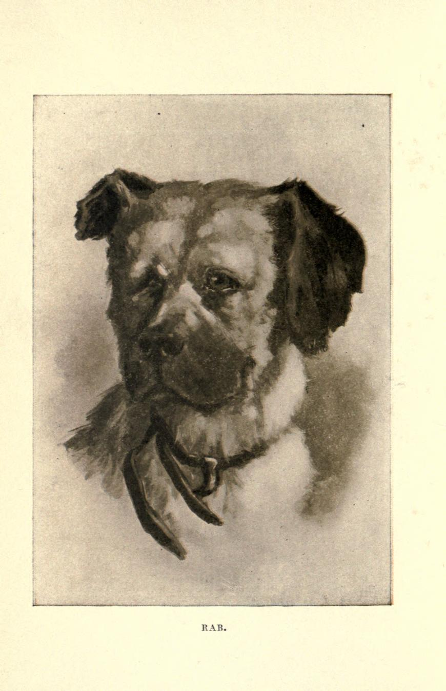 Portrait of "Rab" from the short story "Rab and His Friends" by John Brown (1810-1882) in the 1906 McLaughlin illustrated edition.